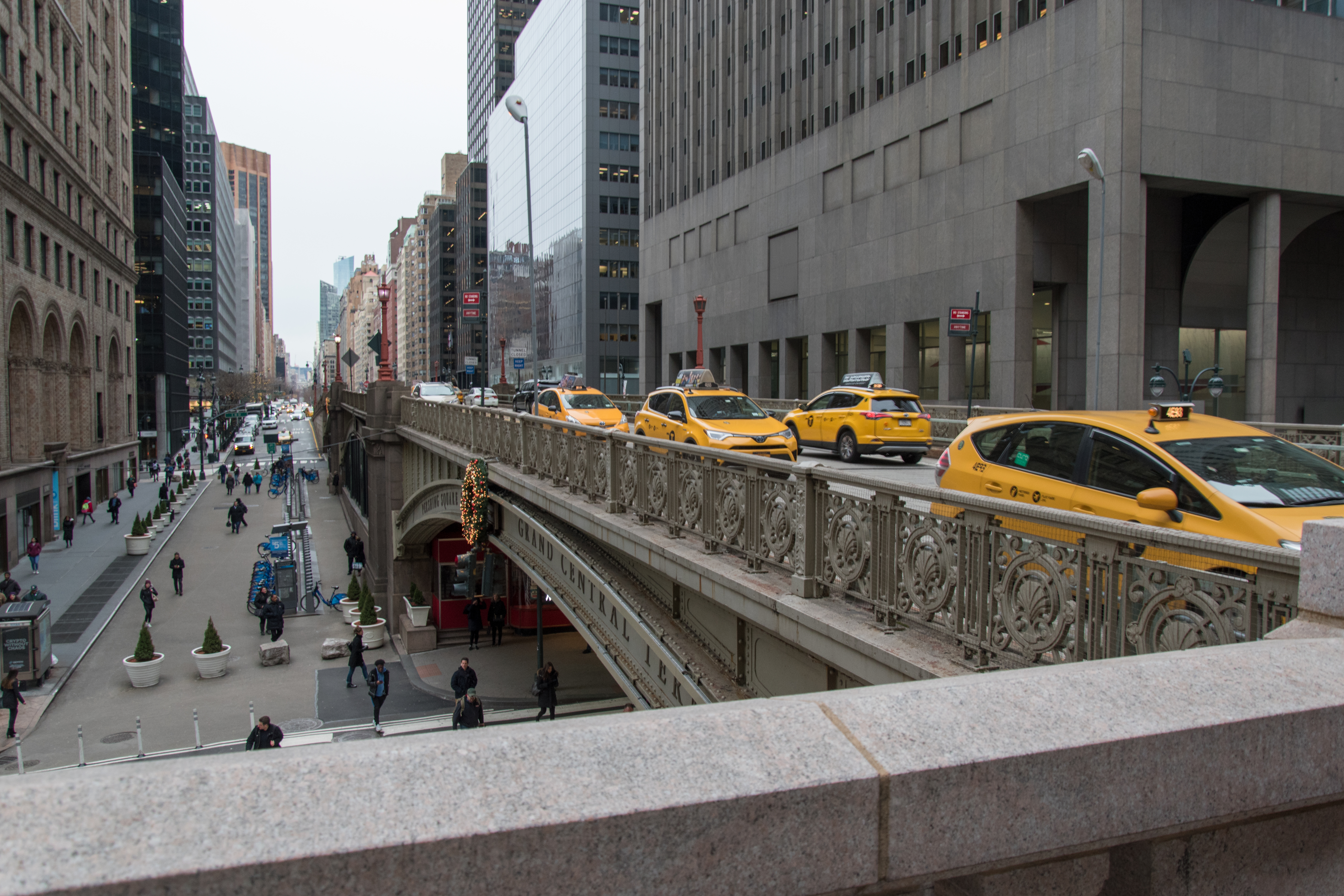 Park Avenue viewed from New York City's Grand Central Terminal/Park Avenue Viaduct in 2019. taken as part of a scheduled photoshoot with three other Wikipedians on January 7, 2019.